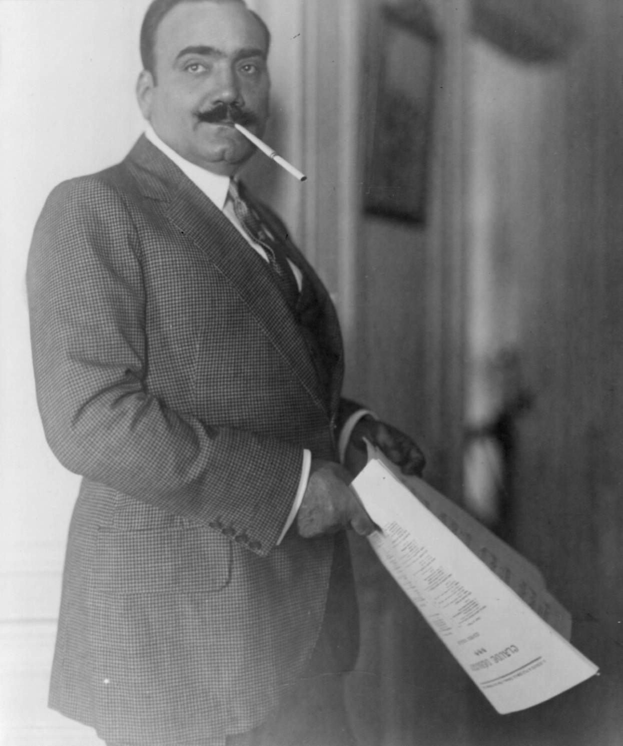 Enrico Caruso, 1873-1921, three-quarter length portrait, standing, facing right, cigarette in holder in his mouth